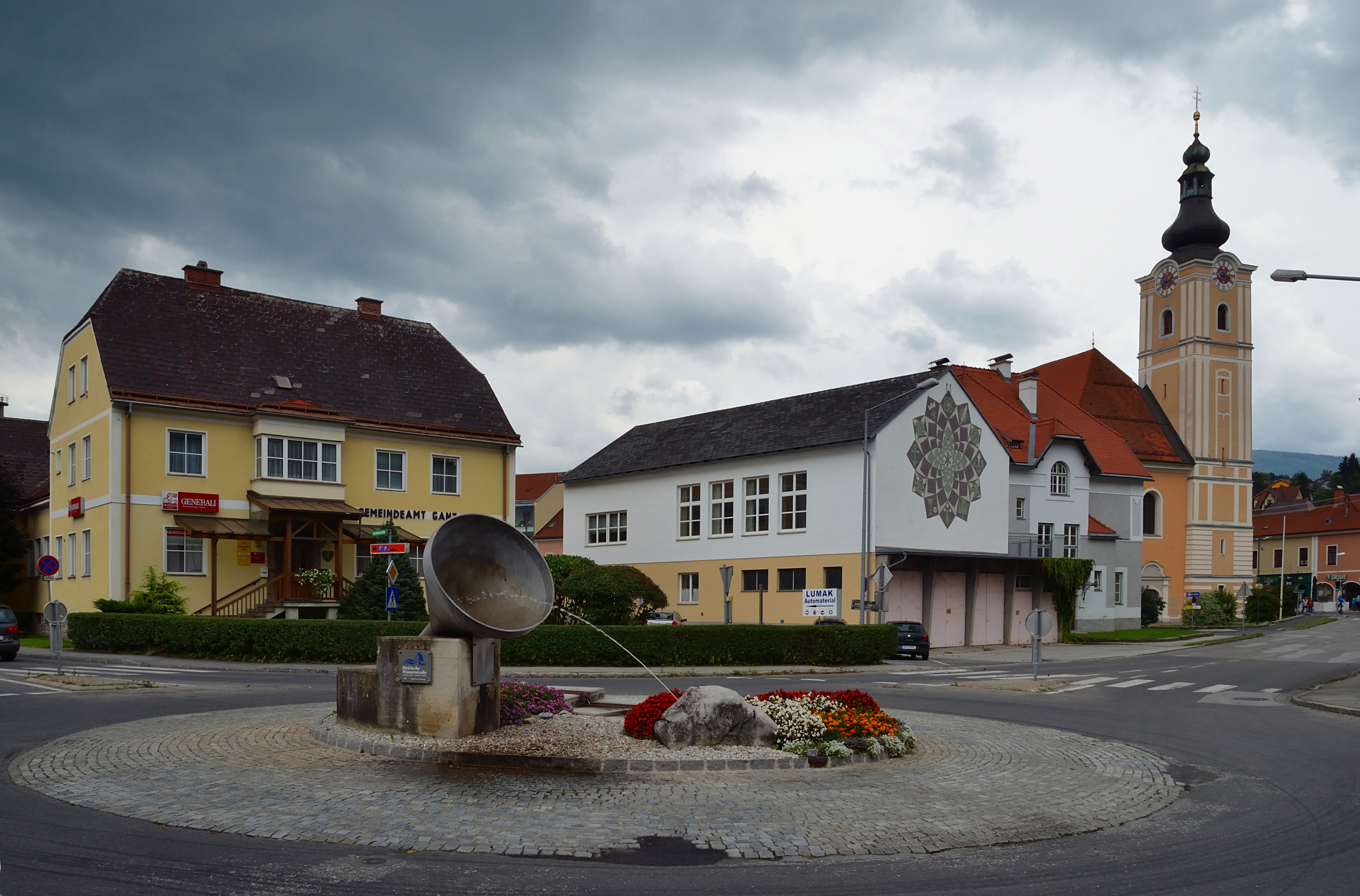 Former municipal office of Ganz, which became part of Mürzzuschlag 1.1.2015, the old church hall (destroyed in spring 2015), rectory and parish church St. Cunigunde. Municipality Mürzzuschlag. In front Roundabout Mariazeller Straße / Frachtenstraße.